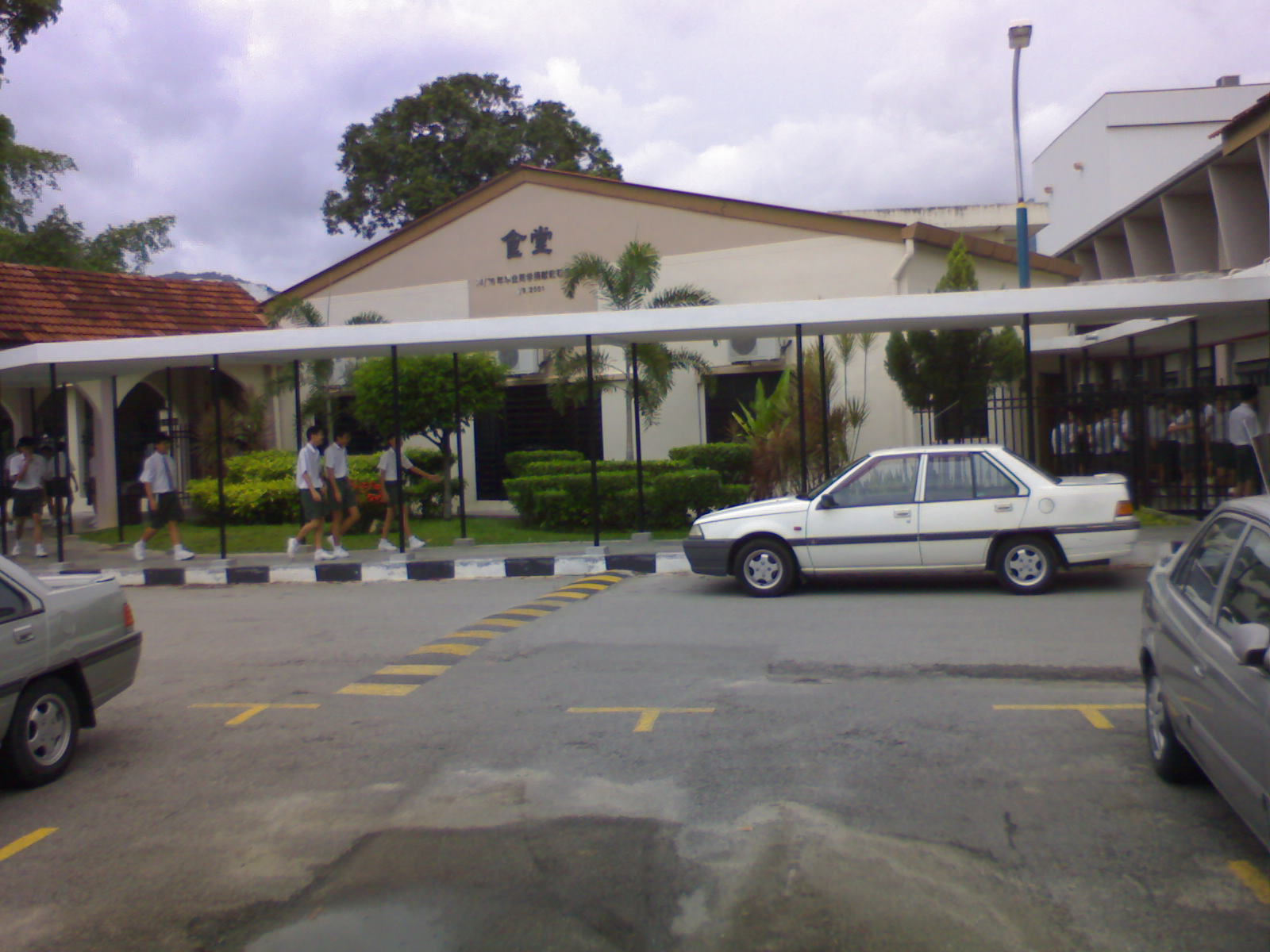 This is the teachers and staff canteen of Chung Ling (National Type) High School.